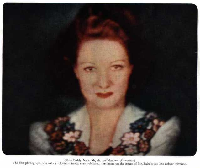 This is a photograph of the first color television image displayed for the public in the UK, a demonstration made by famed Scottish television pioneer, John Logie Baird in 1941. The image was produced by a two-color system using dual projection CRTs combining their image onto a screen. The image shows famed adventurer Paddy Naismith, known as a race driver, air hostess and model of the 1930s and 40s.